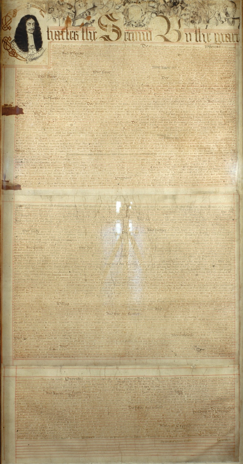 The Royal Charter of Connecticut, 1662. This document is exhibited at the Connecticut State Library as the original charter of 1662; however, there is a duplicate at the Connecticut Historical society which may be the original, which would make this copy the duplicate.